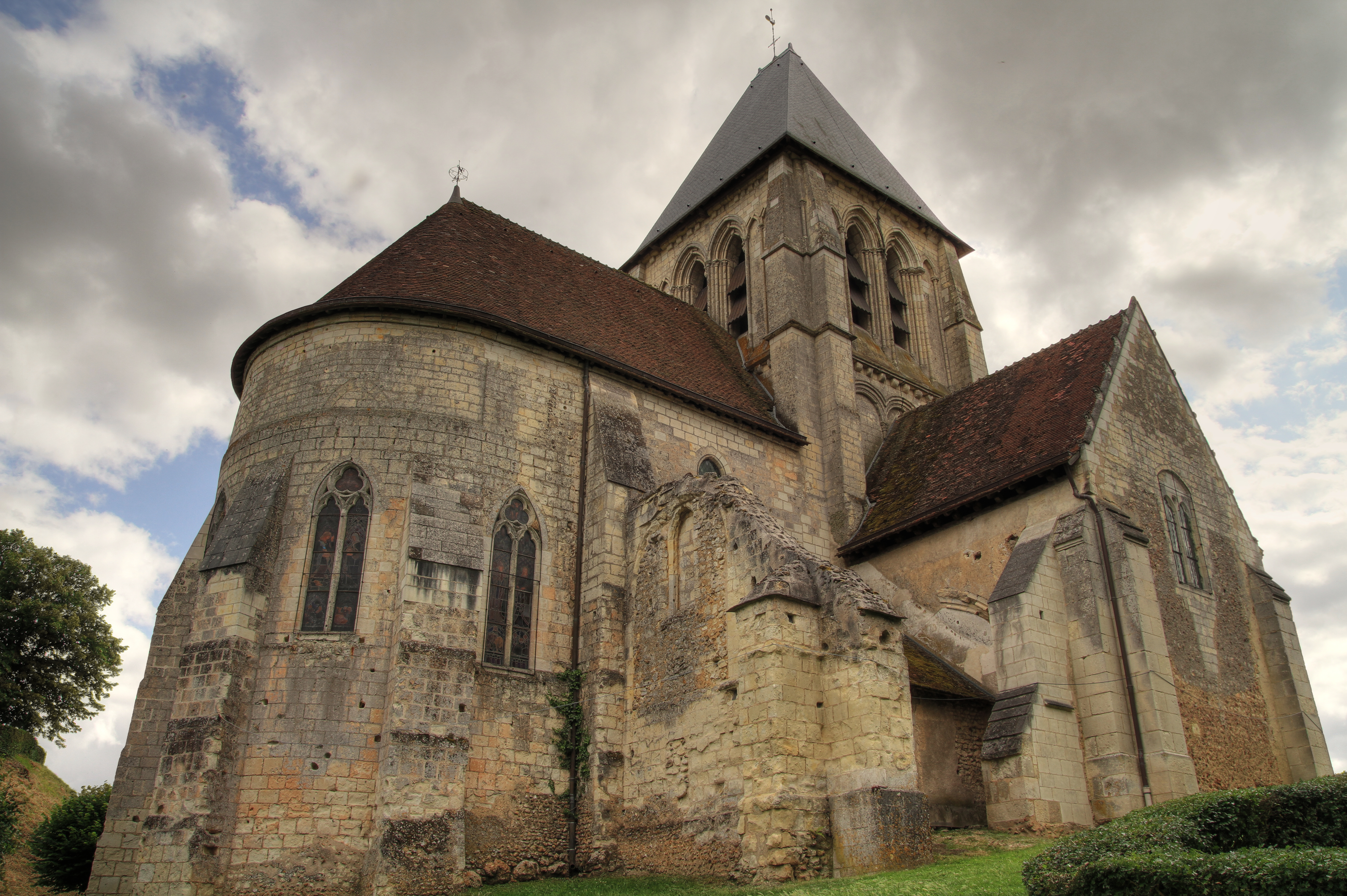 The church Saint-Martin in Trôo.